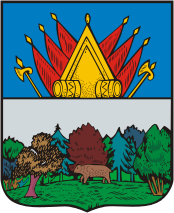 Turinsk (Sverdlovsk oblast), coat of arms (1785)